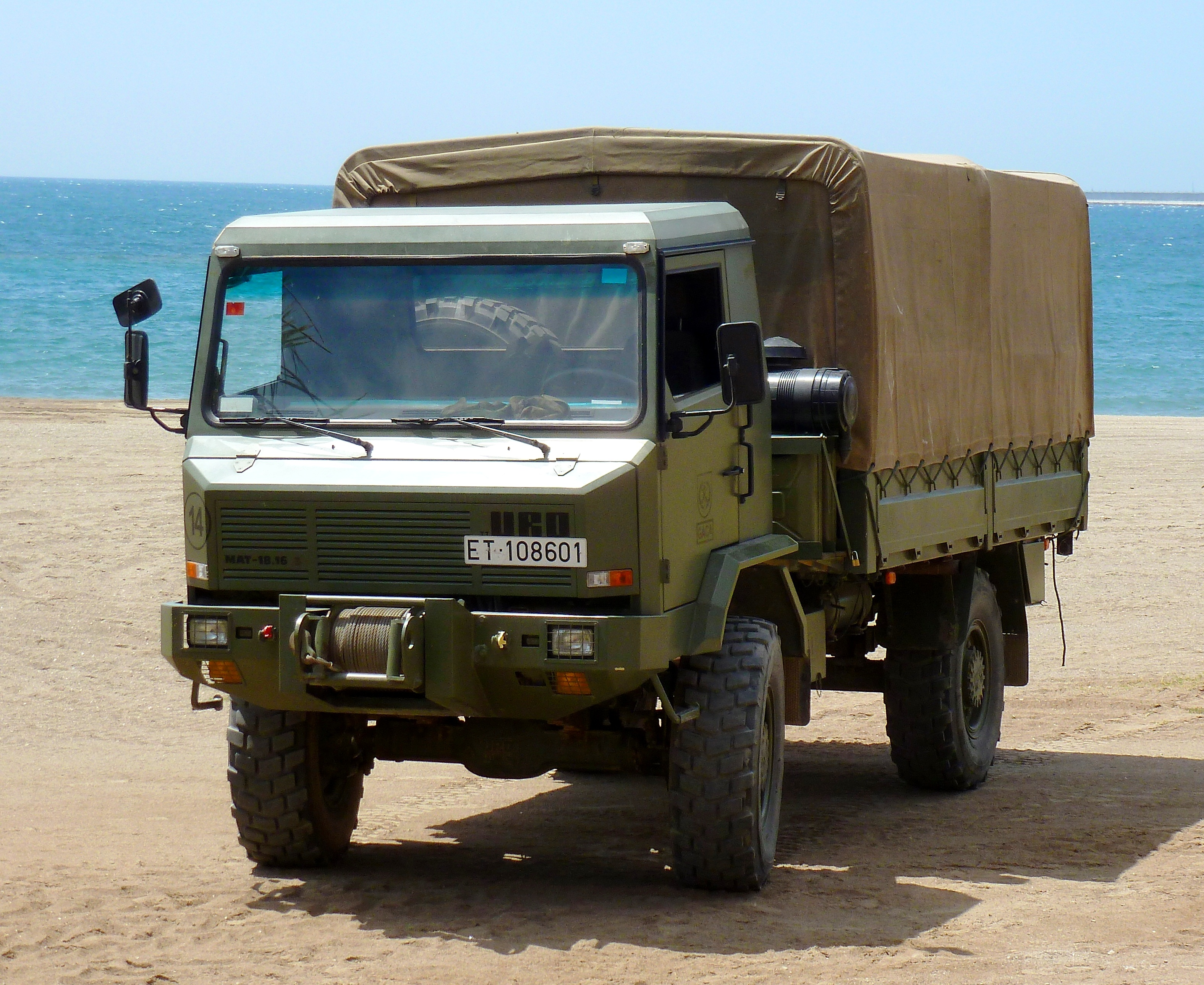 URO MAT-18.16 of the Spanish Army.